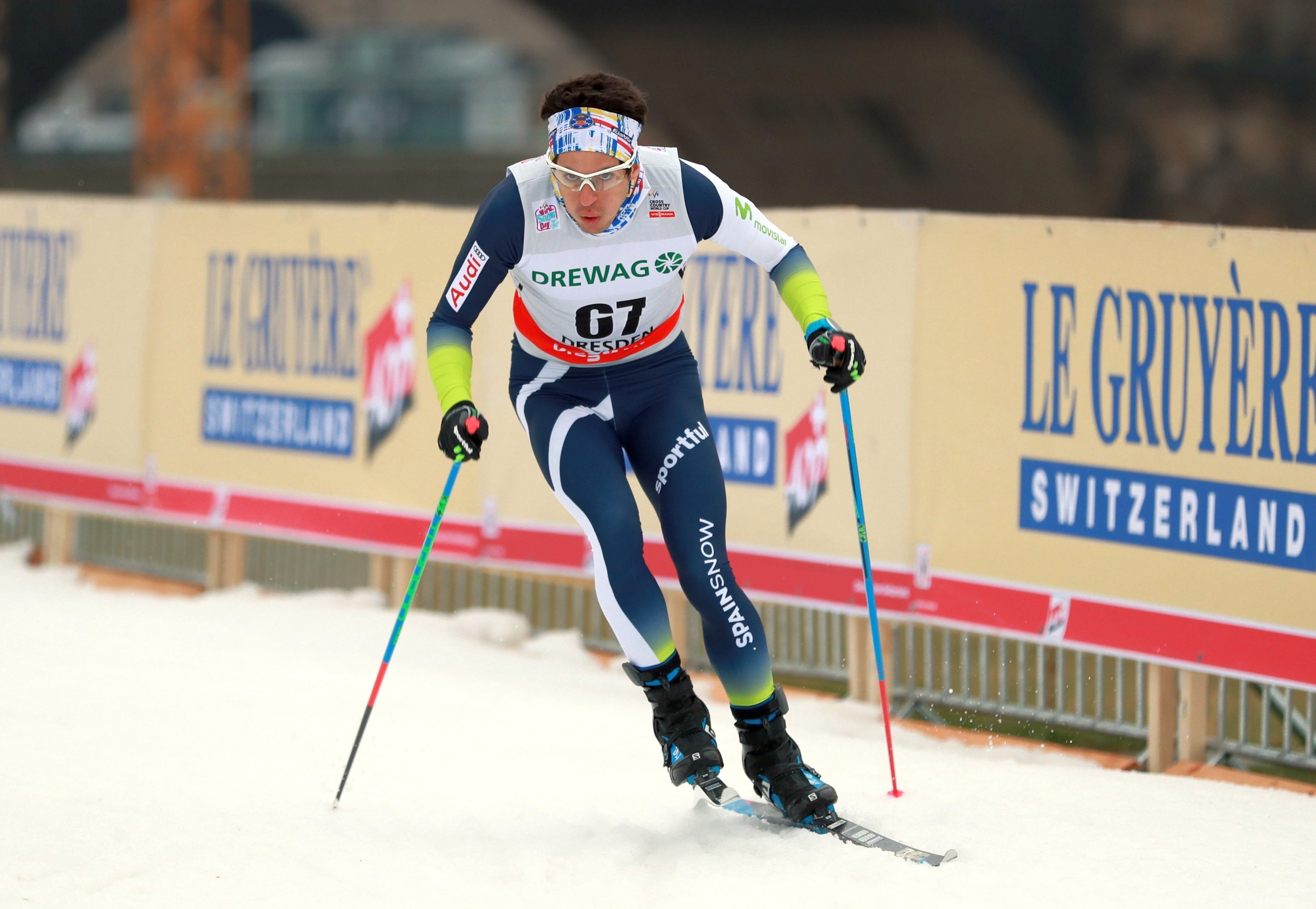 Mens Prolog at the FIS Cross-Country World Cup Dresden 2018: Marti Vigo del Arco